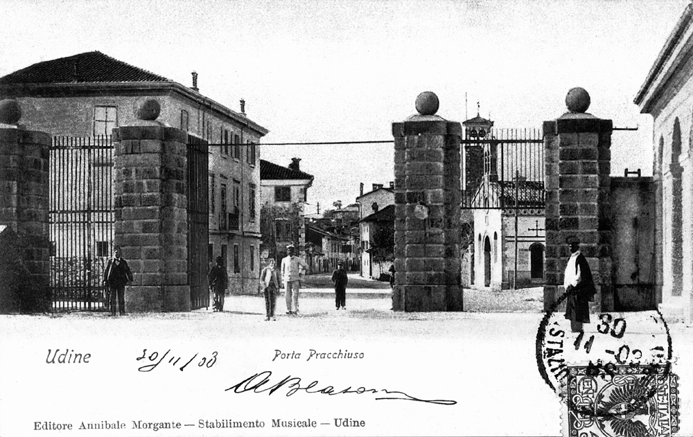 Porta Pracchiuso 1